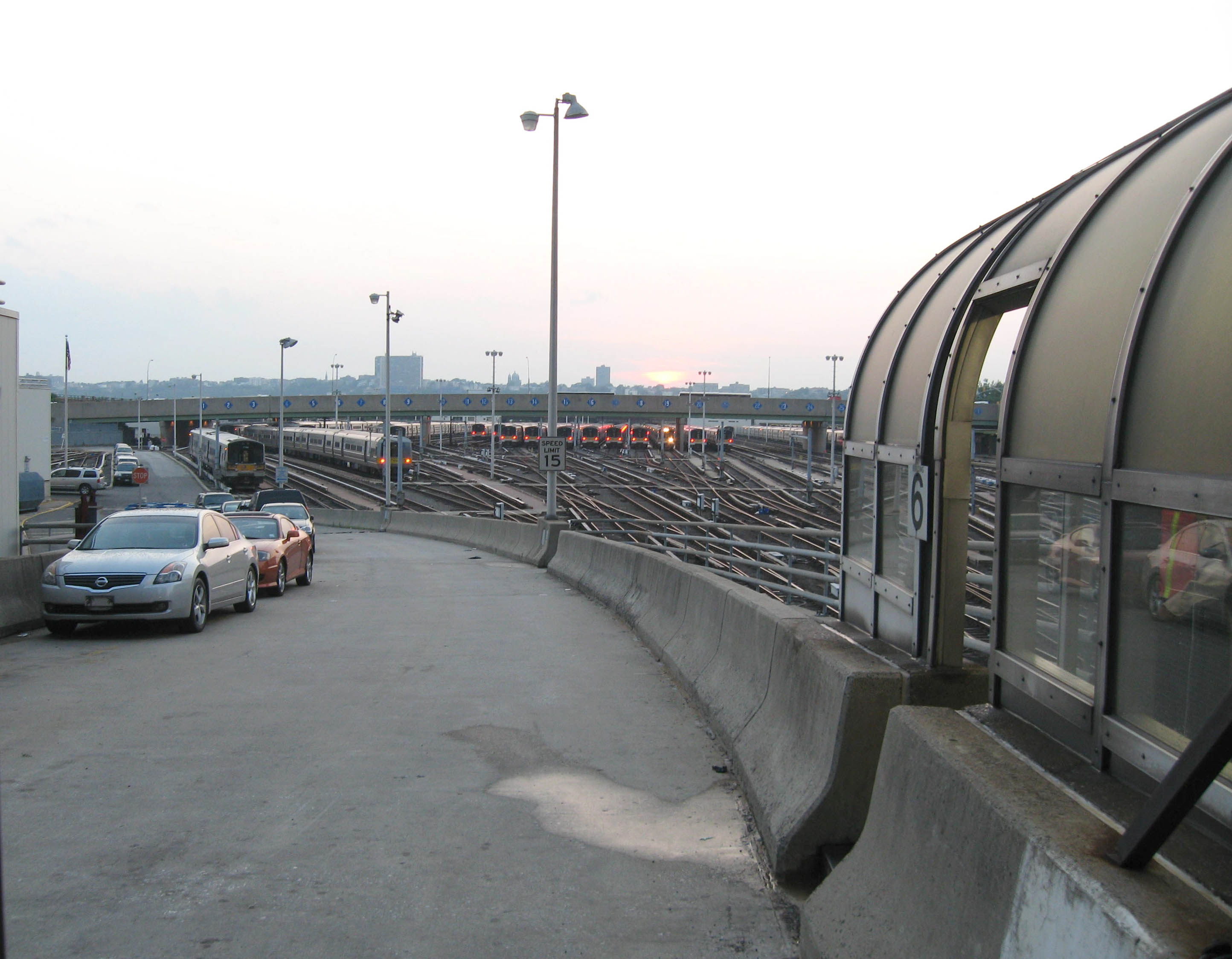 Looking west from 10th Avenue into West Side Yards, site of planned Hudson Yards Redevelopment Project at sunset